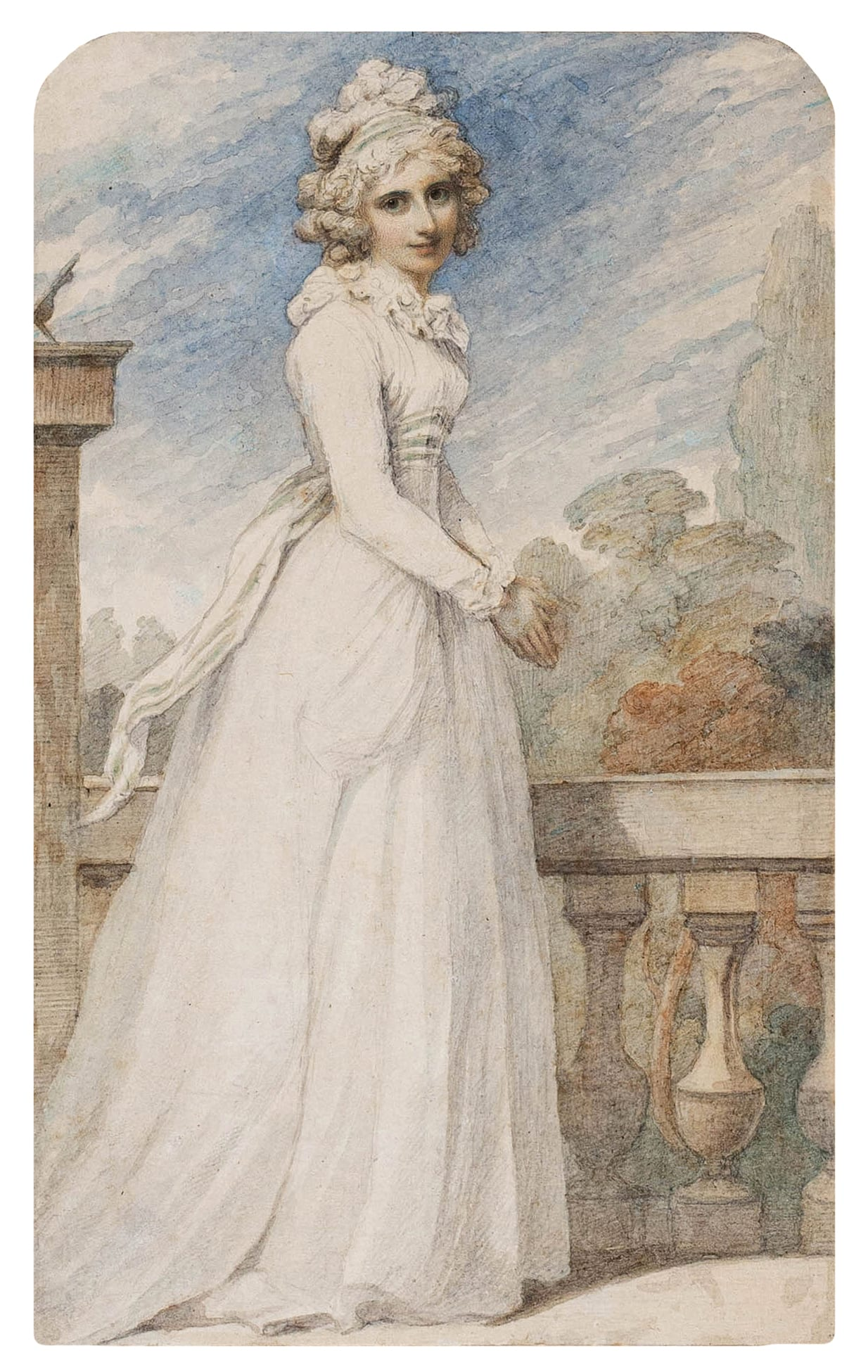 Offered for sale by Abbott and Holder in December 2019, when it was described as "COSWAY Richard R.A. (1742-1821) Portrait of Sarah Ley (b.c.1771), Mrs Richard Tickell from 1789. Pencil and watercolour. Engraved 1791 by Jean Conde (1765-1794). Exhibited: The Royal Academy, 'Winter Exhibition', 1954-55, no.504; The National Portrait Gallery, 'The Masque of Beauty', 1972, no.56. Arched 9x5.5 inches."